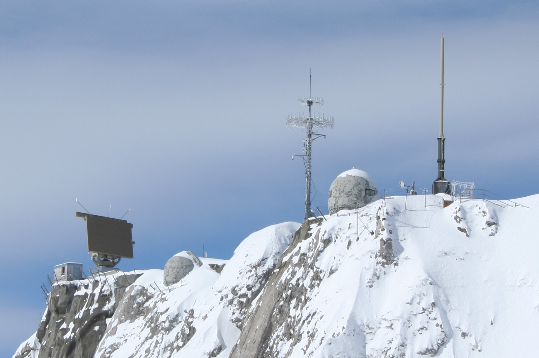 Radar and weather station at the top of Mount Pilatus, near Lucerne (Switzerland).